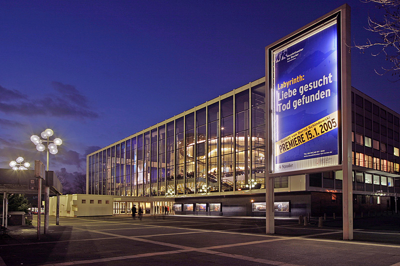 Musiktheater im Revier (MiR), an opera house in Gelsenkirchen, Germany